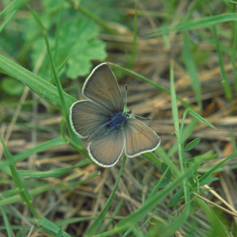 Female Fender's Blue Butterfly (Icaricia icarioides fenderi) near Fern Ridge Reservoir, Oregon, USA